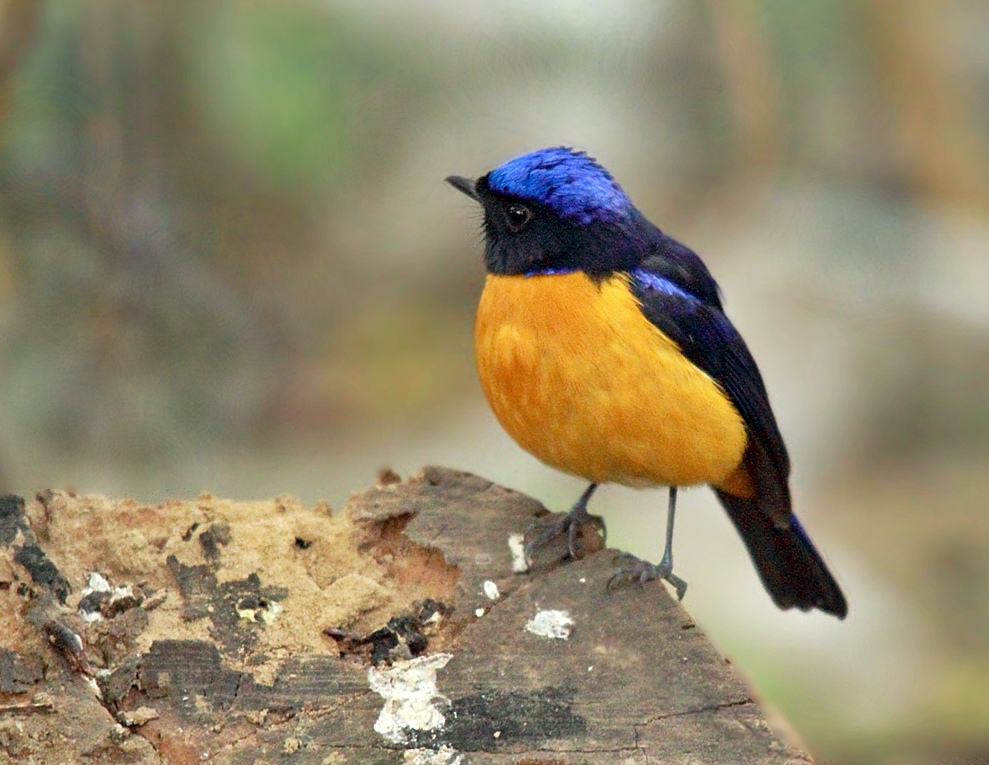 Rufous bellied niltava at New Forest Campus Dehradun. A winter visitor to the campus located in the foothills of himalayas.